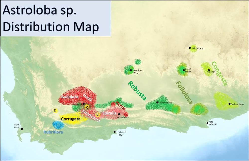 Distribution Map of the Astroloba Species - South Africa. Proposed groupings or "complexes" of closely related species, are in related colours: Greens: The foliolosa complex, comprising Astroloba congesta, foliolosa & robusta. Reds & pinks: The bullulata & spiralis complexes, comprising Astroloba bullulata, hallii, smutsiana, spiralis, herrei. Yellow: Astroloba corrugata and its outlying populations. Blue: The outlying species, Astroloba rubriflora (previously Poellnitzia).